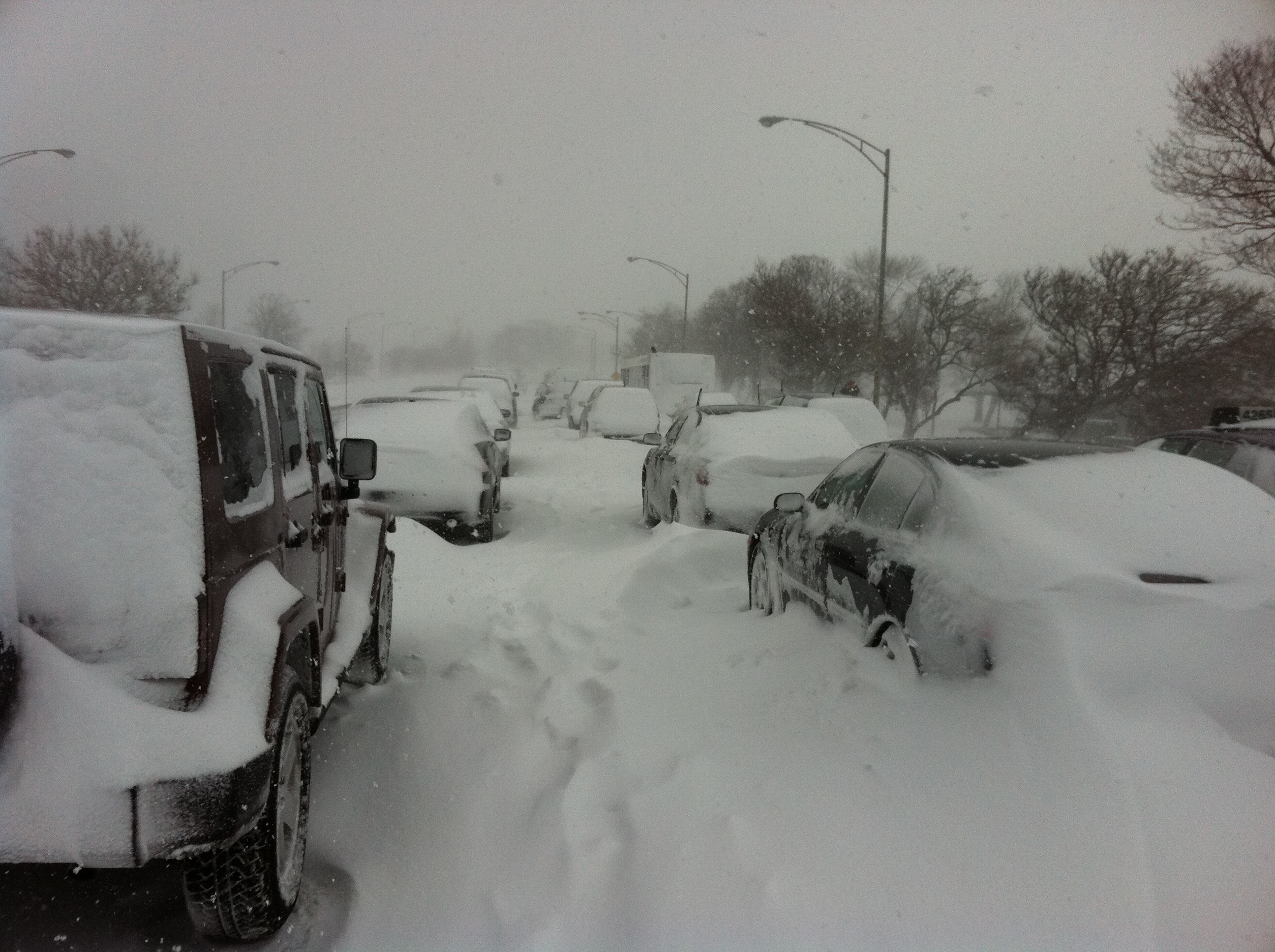 This is an image of Cars stuck on Lake shore drive Chicago due to heavy snow.